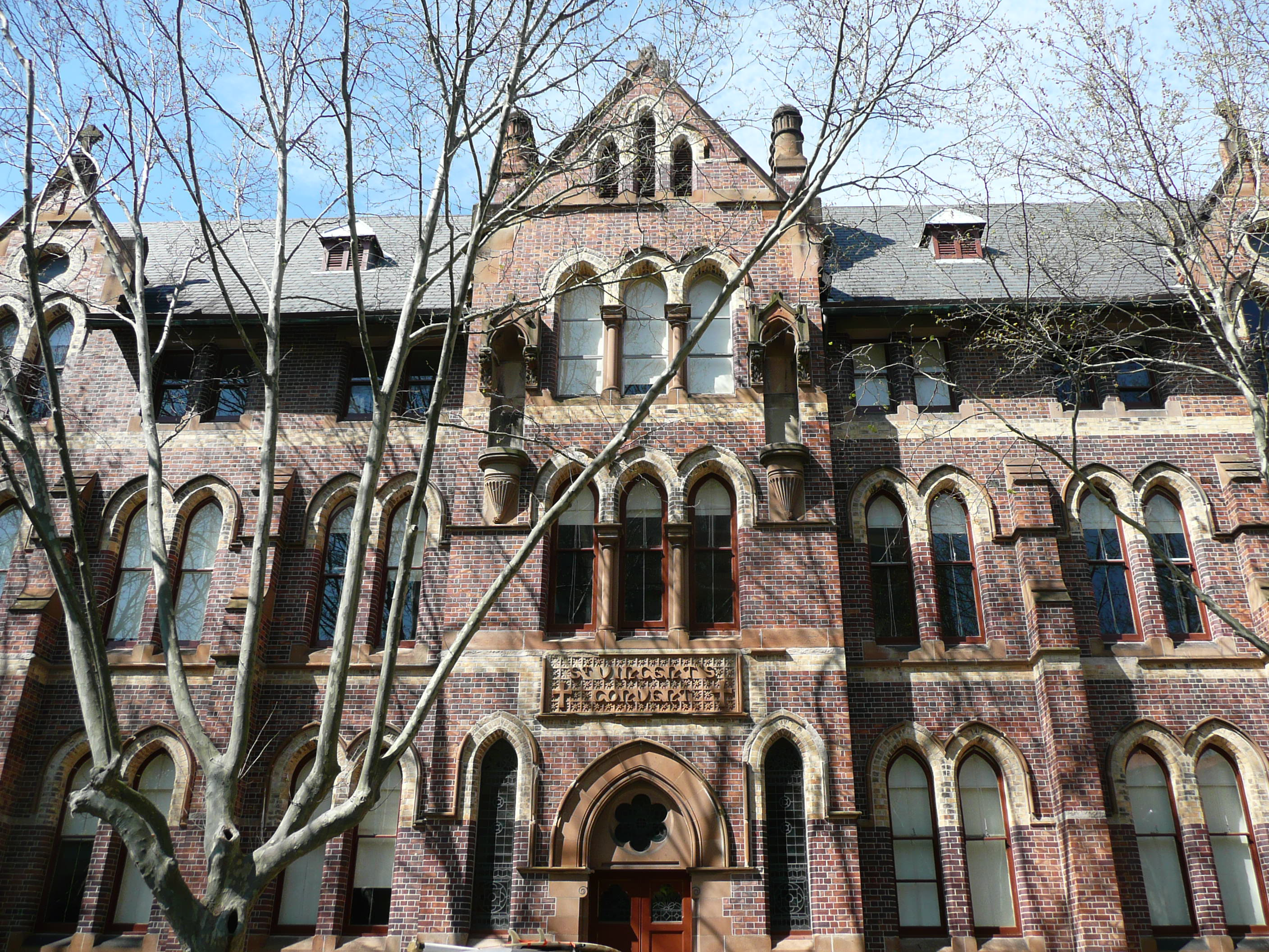 st vincents college, sydney